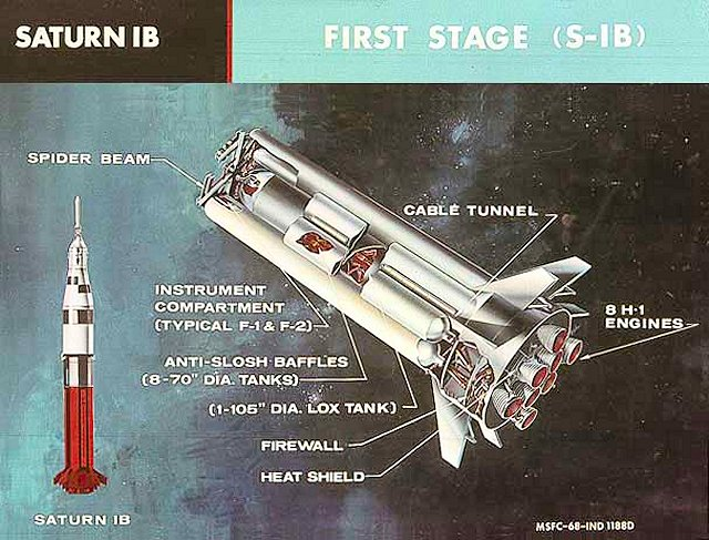 Cutaway diagram of Saturn S-IB 1st stage.